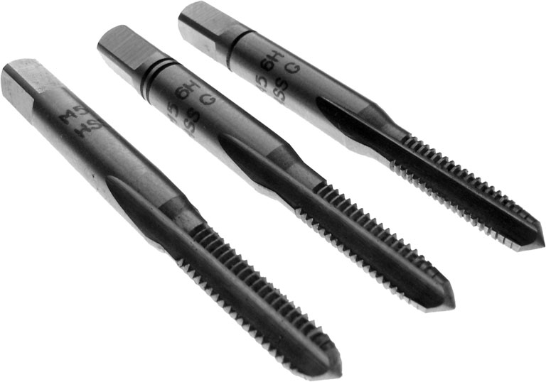 Triple tap M5